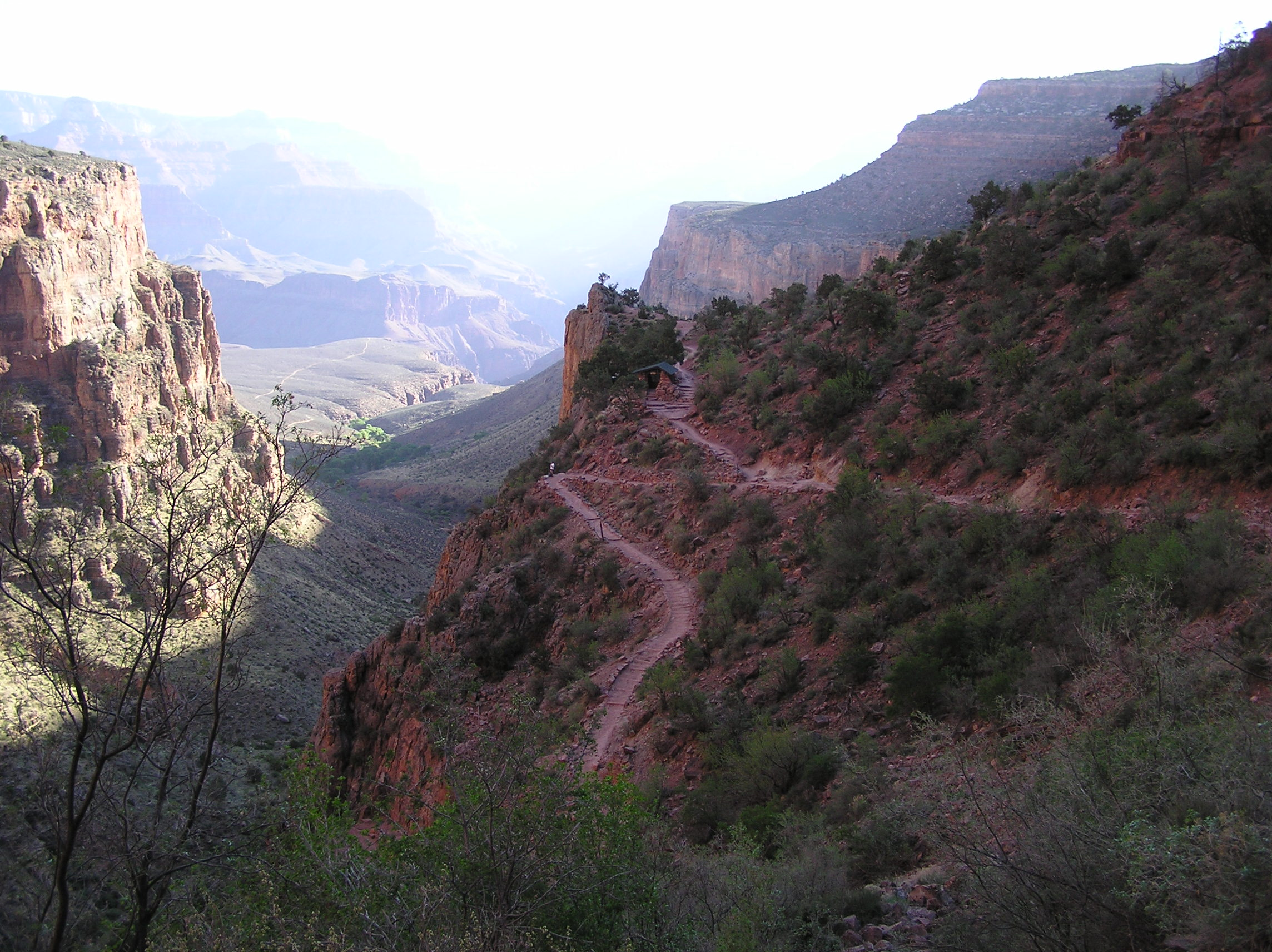 Indian Garden and Three-mile Resthouse from Bright Angel Trail, Grand Canyon National Park.